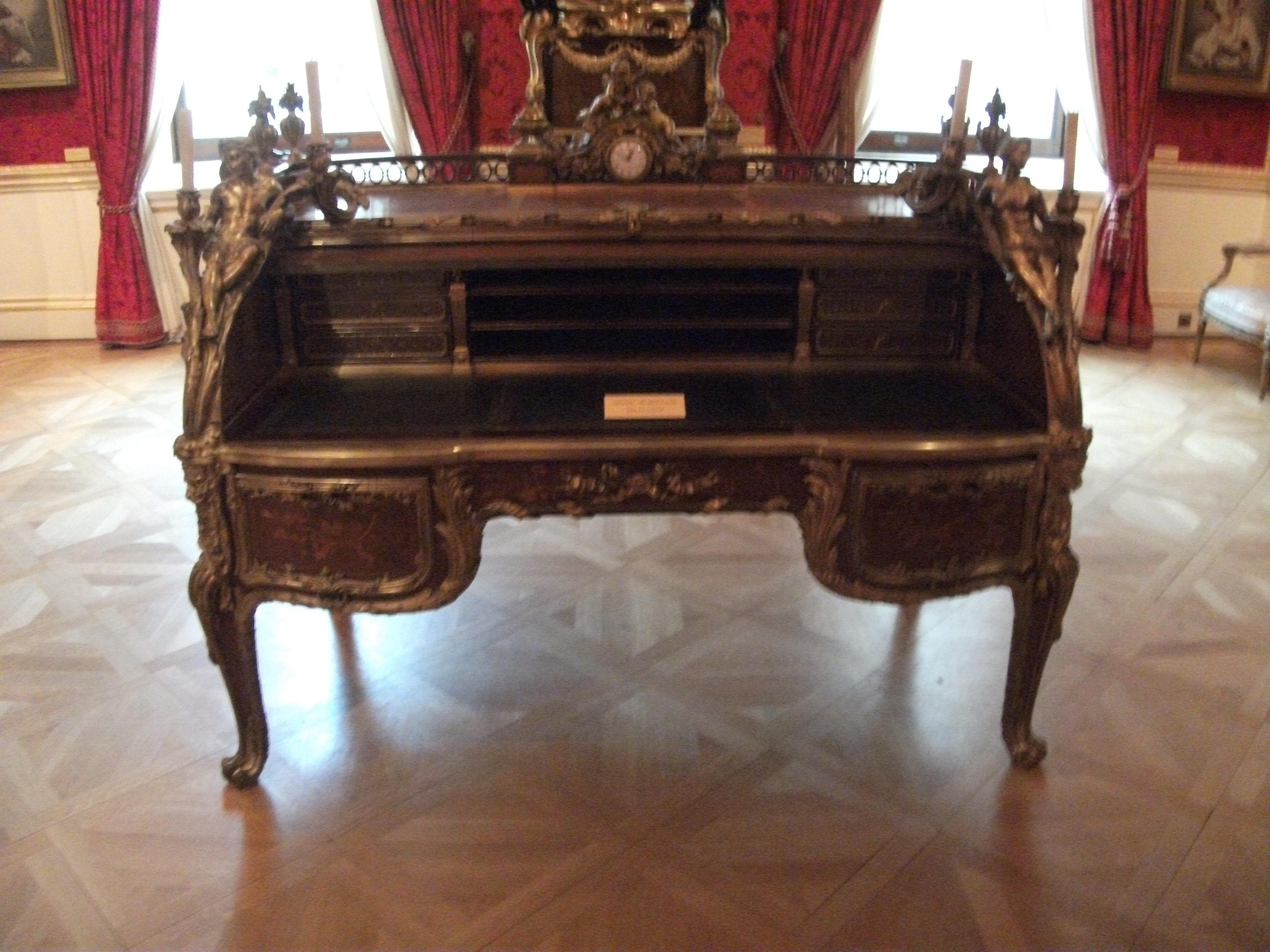 Wallace Collection Native nameWallace CollectionLocationLondonCoordinates51° 31′ 03″ N, 0° 09′ 11″ W Established1897Website control VIAF: 130815091 ULAN: 500302044 LCCN: n50034920 BNF: 12124266g WorldCat